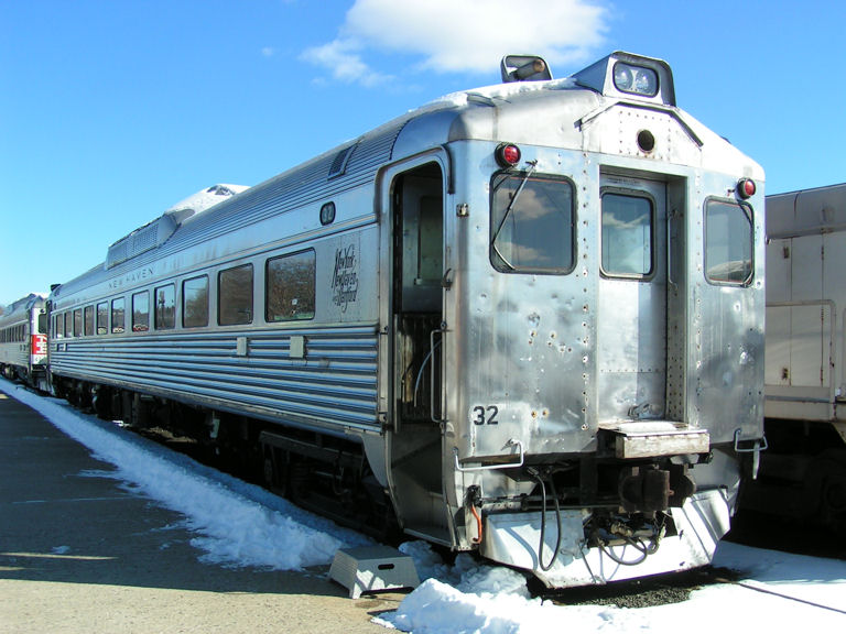 Former New Haven Budd RDC-1 #32 at Danbury Railway Museum.